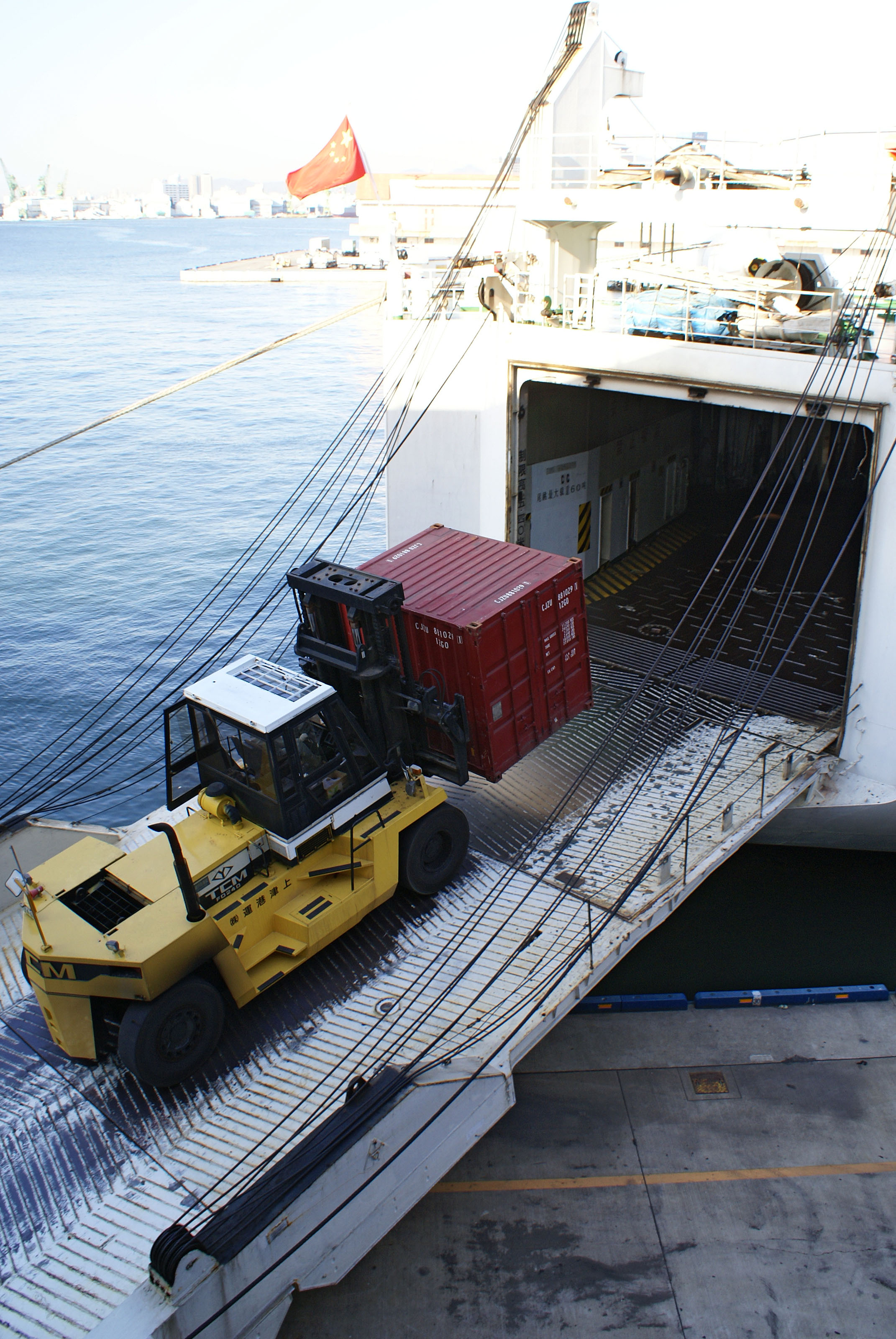 "Xinjianzhen" who anchors at "Kobe Port Terminal" of the Kobe harbor ( Kobe, Hyogo, Japan)